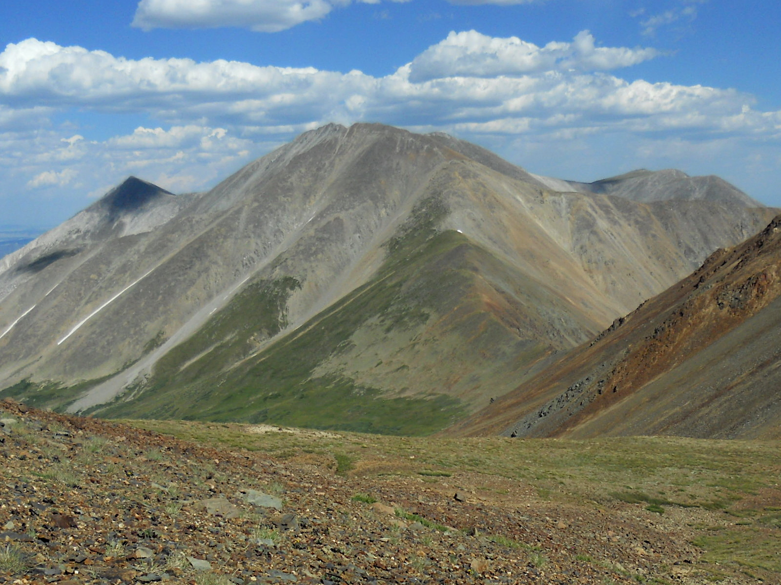 Tabeguache Peak as viewed from the west-northwest. At an elevation of 14,155 ft (4,314 m), this peak is the 25th highest summit in Colorado. Tabeguache Peak is located in the San Isabel National Forest.